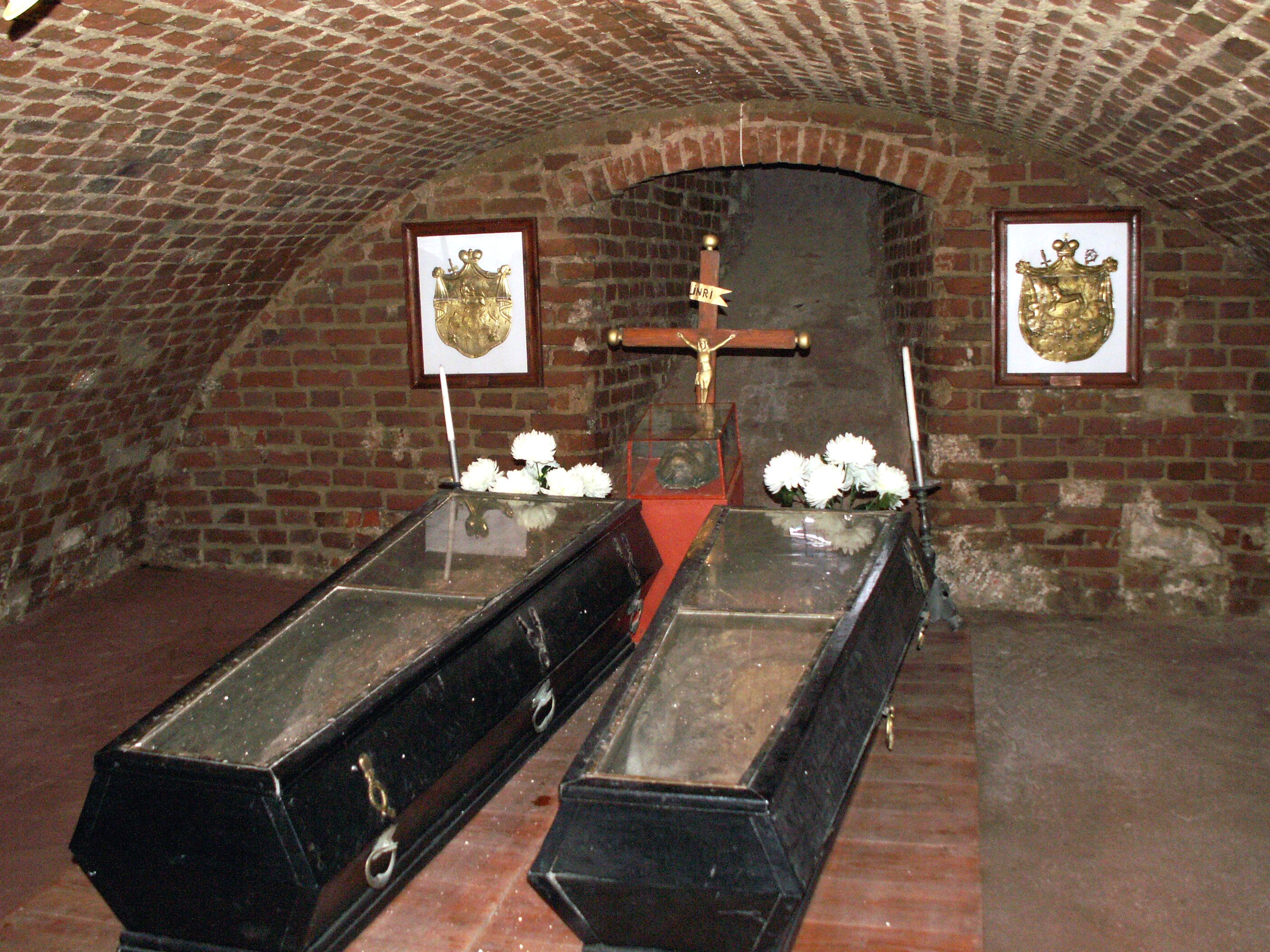 Varniai church, tomb of biskups Giedraitis Lithuania